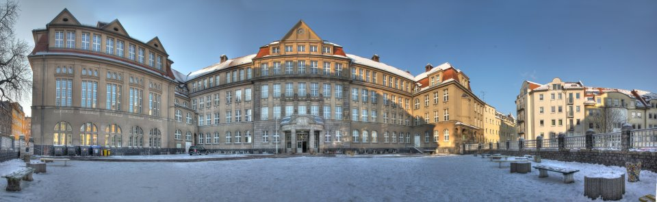 Front view of the Hans-Dietrich-Genscher-Gymnasium Halle NOTE: This image is a panorama consisting of multiple frames that were merged or stitched in software. As a result, this image necessarily underwent some form of digital manipulation. These manipulations may include blending, blurring, cloning, and color and perspective adjustments. As a result of these adjustments, the image content may be slightly different than reality at the points where multiple images were combined. This manipulation is often required due to lens, perspective, and parallax distortions.